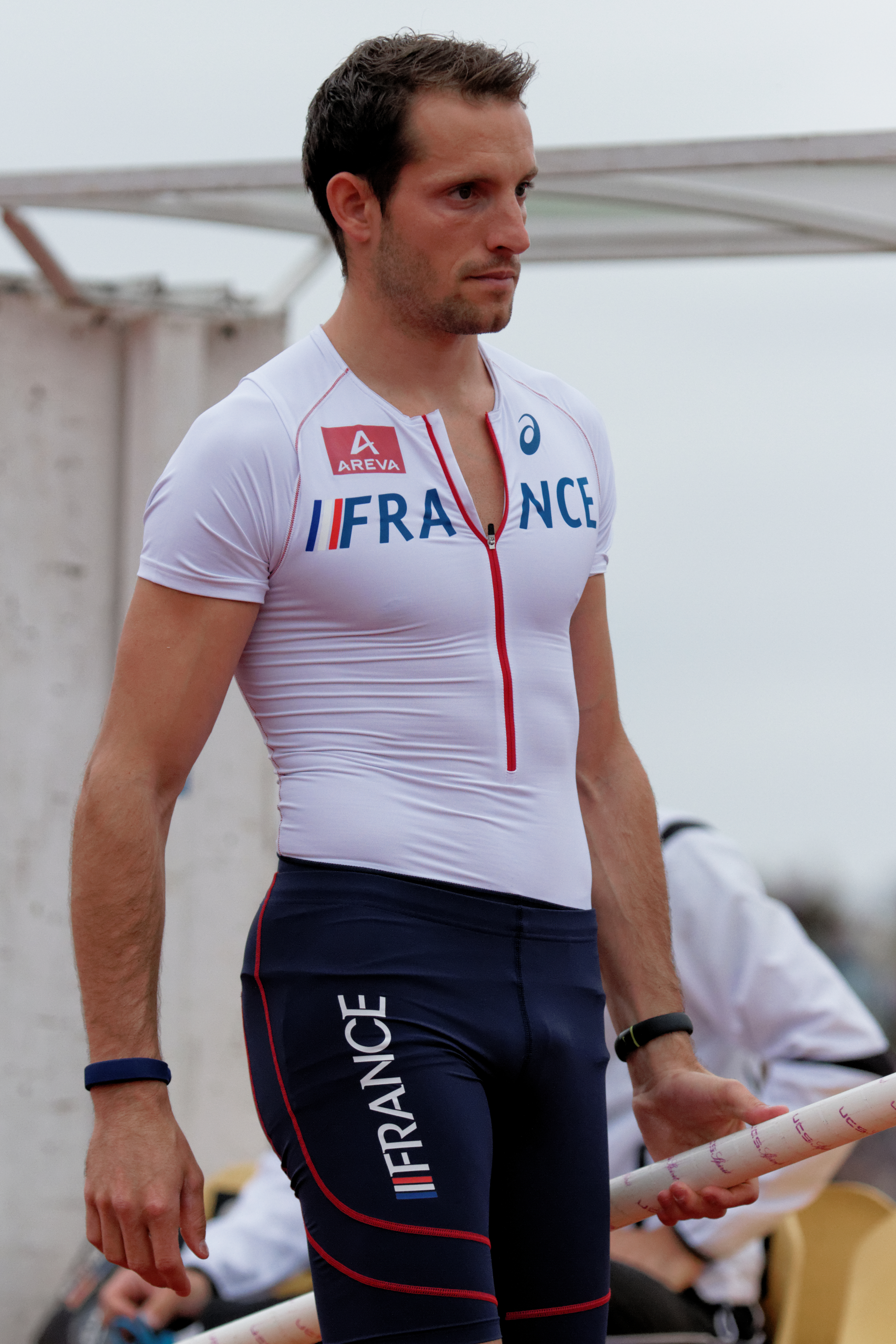 DécaNation 2014